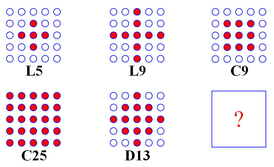 neighborhood types used in cellular evolutionary algorithms